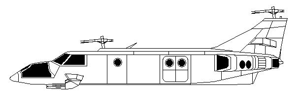 Earliest Kamov V-50 concept.